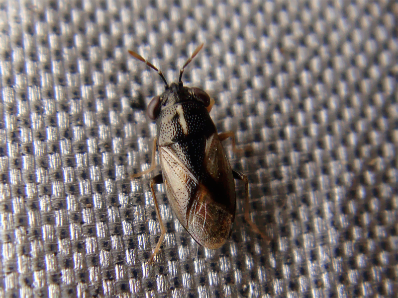 Geocoris albipennis in Pedrogam, Leiria, Portugal